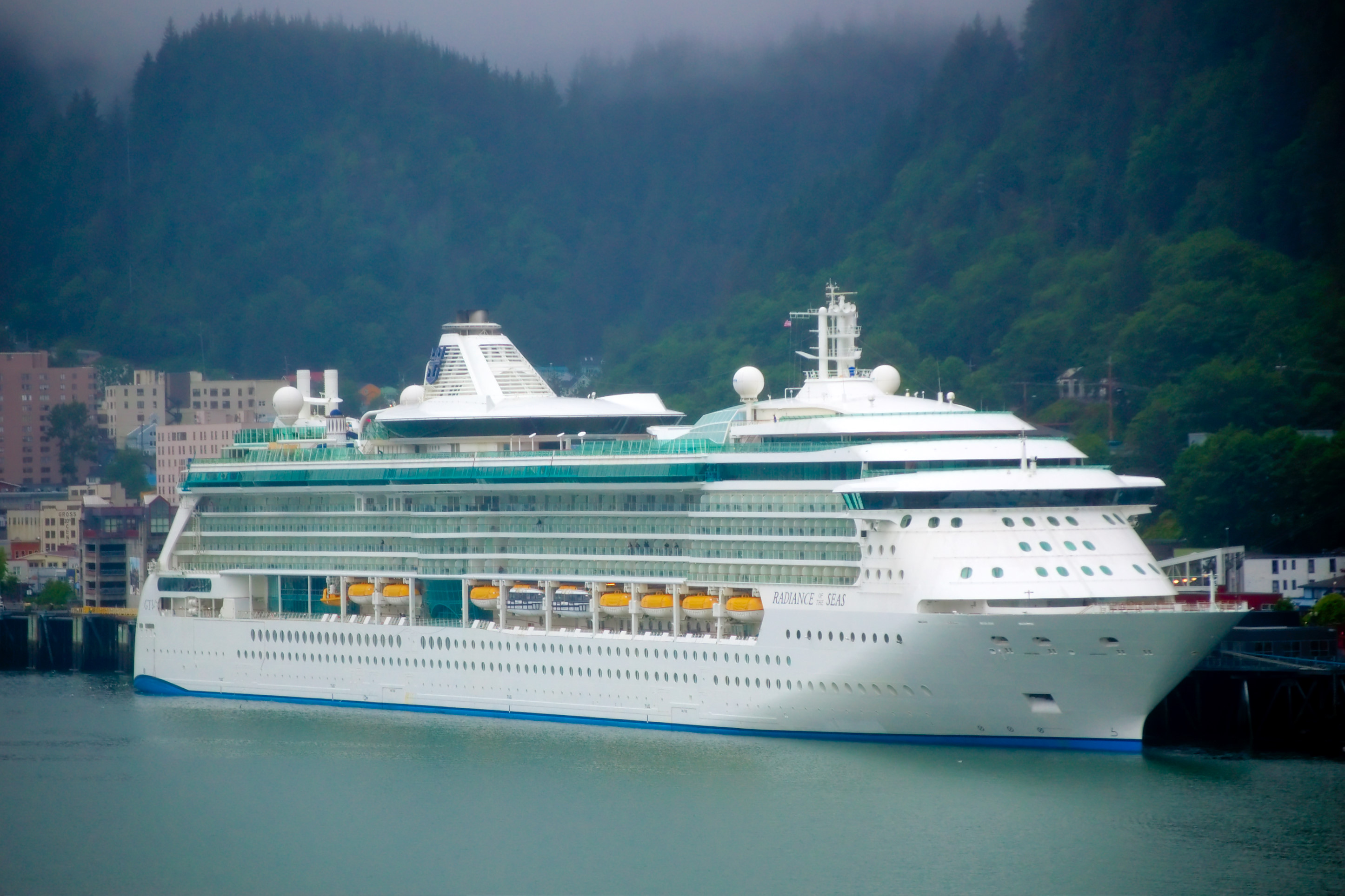 MS Radiance of the Seas docked in Juneau, Alaska. Owned by Royal Caribbean.